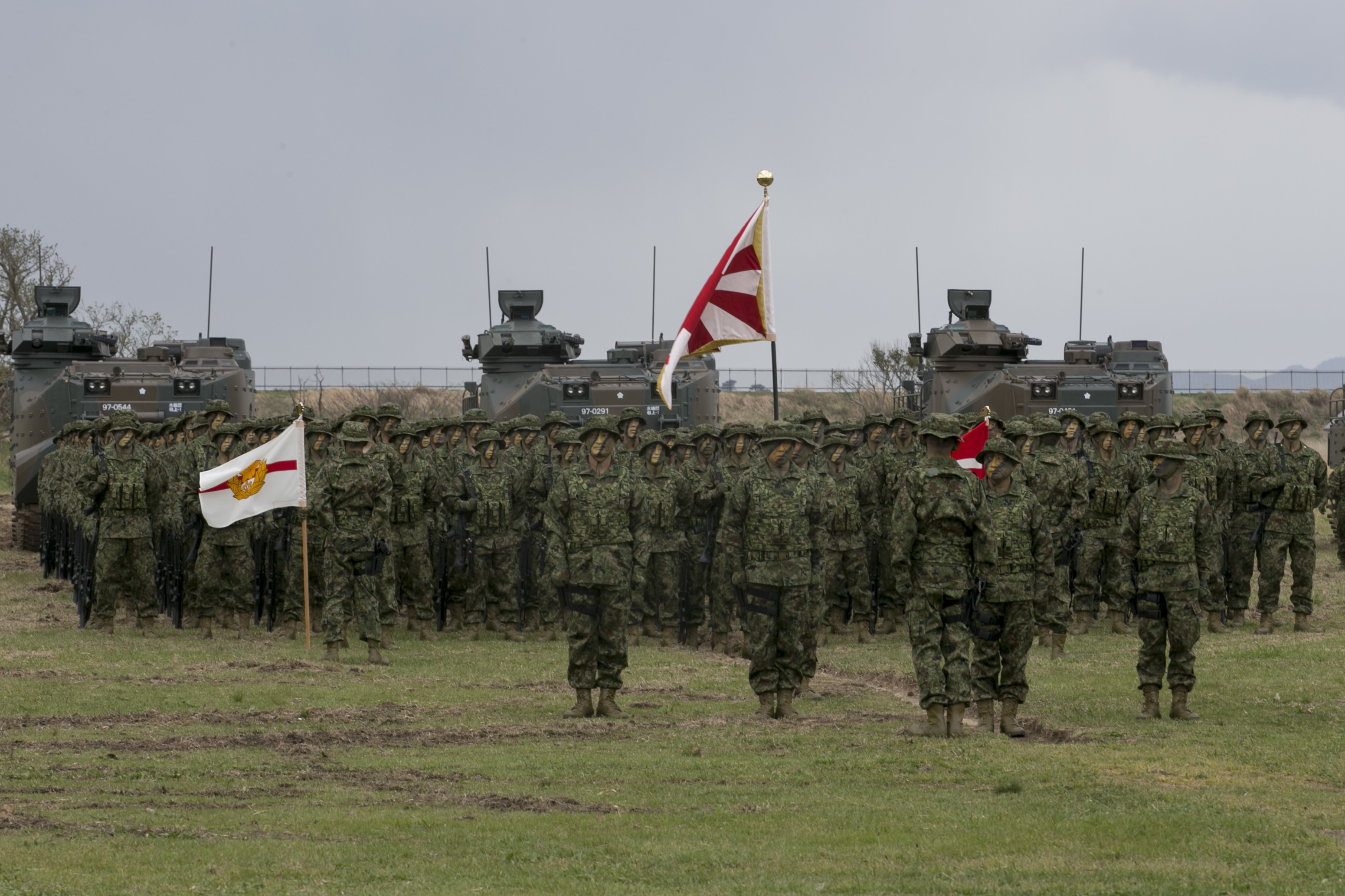 Service members with the Japan Ground Self-Defense Force stand in formation during the Japanese Amphibious Rapid Deployment Brigade’s unit-activation ceremony at Camp Ainoura, Japan, April 7, 2018. The 31st Marine Expeditionary Unit supported the ceremony with a fast rope demonstration from a CH-53E Super Stallion. As the Marine Corps’ only continuously forward-deployed MEU, the 31st MEU provides a flexible force ready to perform a wide range of military operations throughout the Indo-Pacific region.